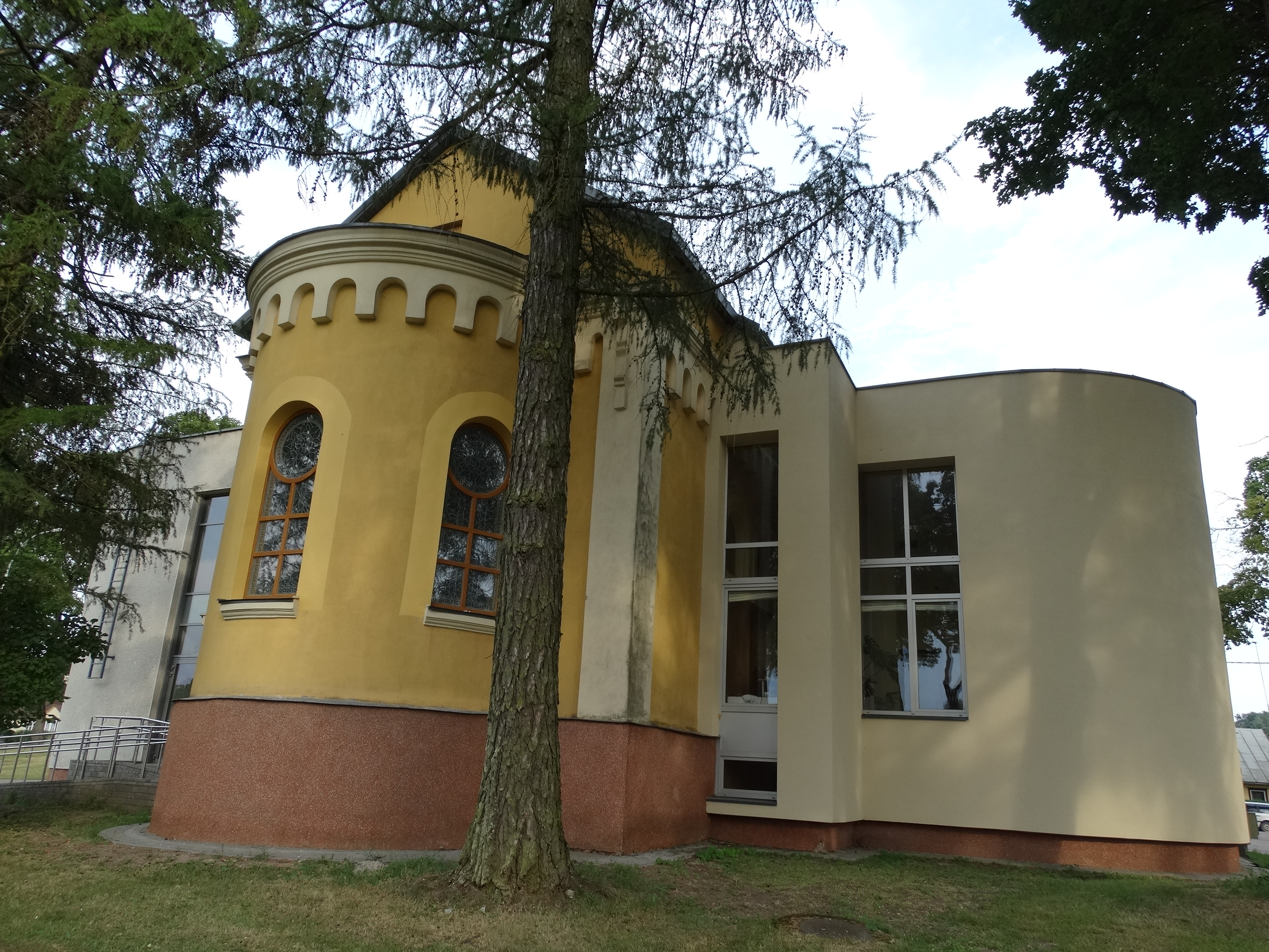 Chapel, Anykščiai, Lithuania